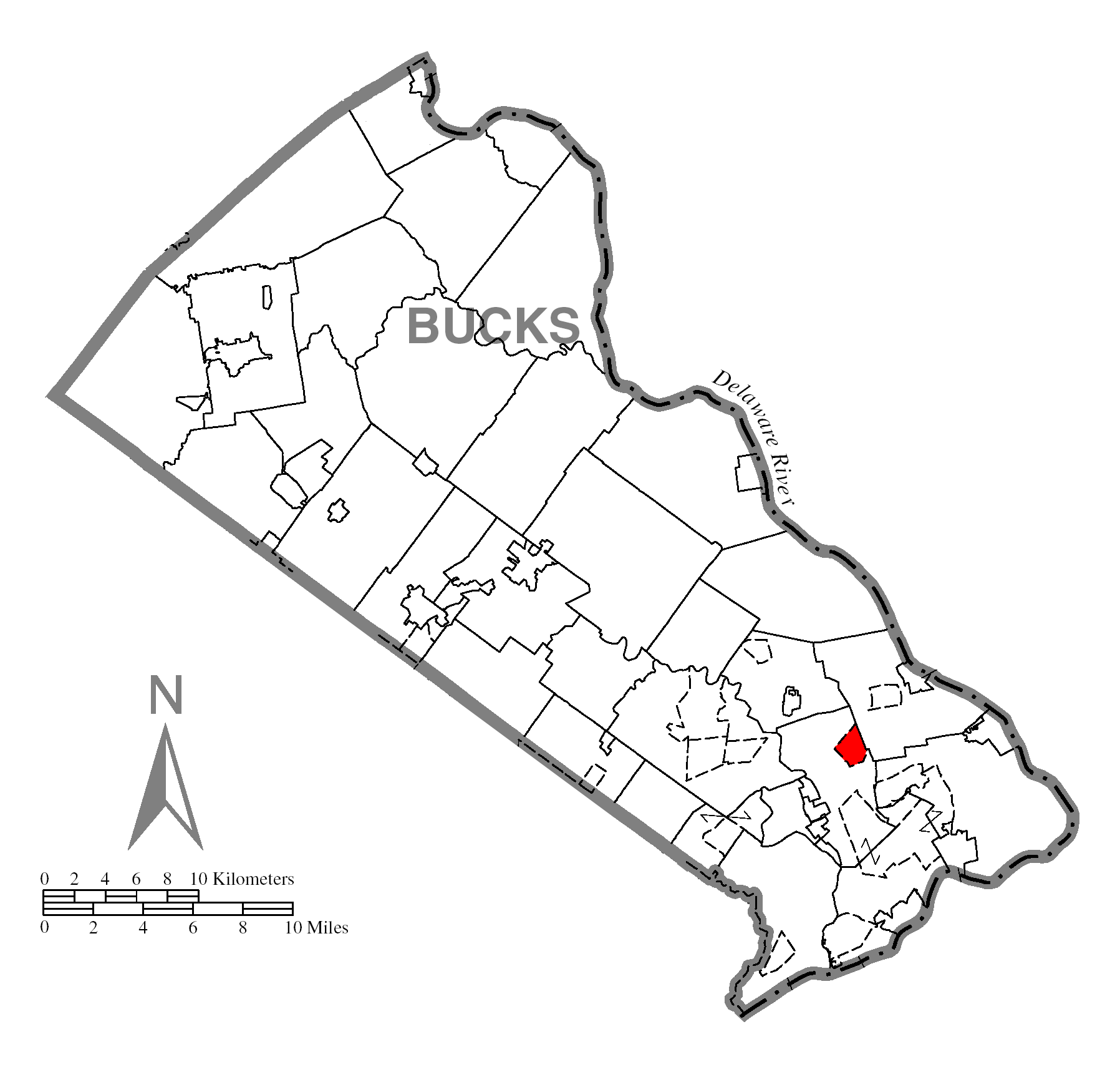 A map of Bucks County showing Woodbourne, Pennsylvania (alternate) highlighted on the map.